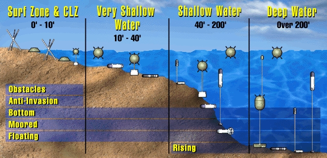 Mine threat environment.